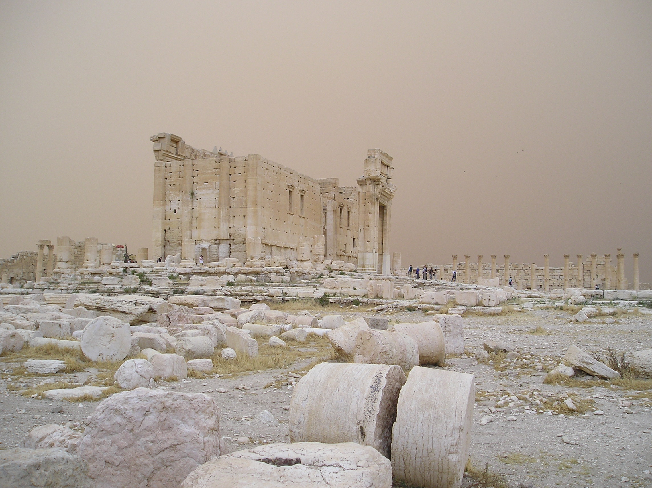 Sandstorm approaching in Palmyra